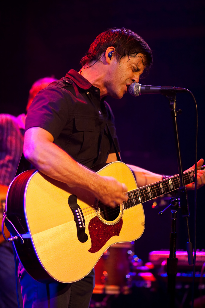 Tom Luce playing at the Great American Music Hall in San Francisco at the CD release show for their CD "Corner of the World", 13-July-2009.